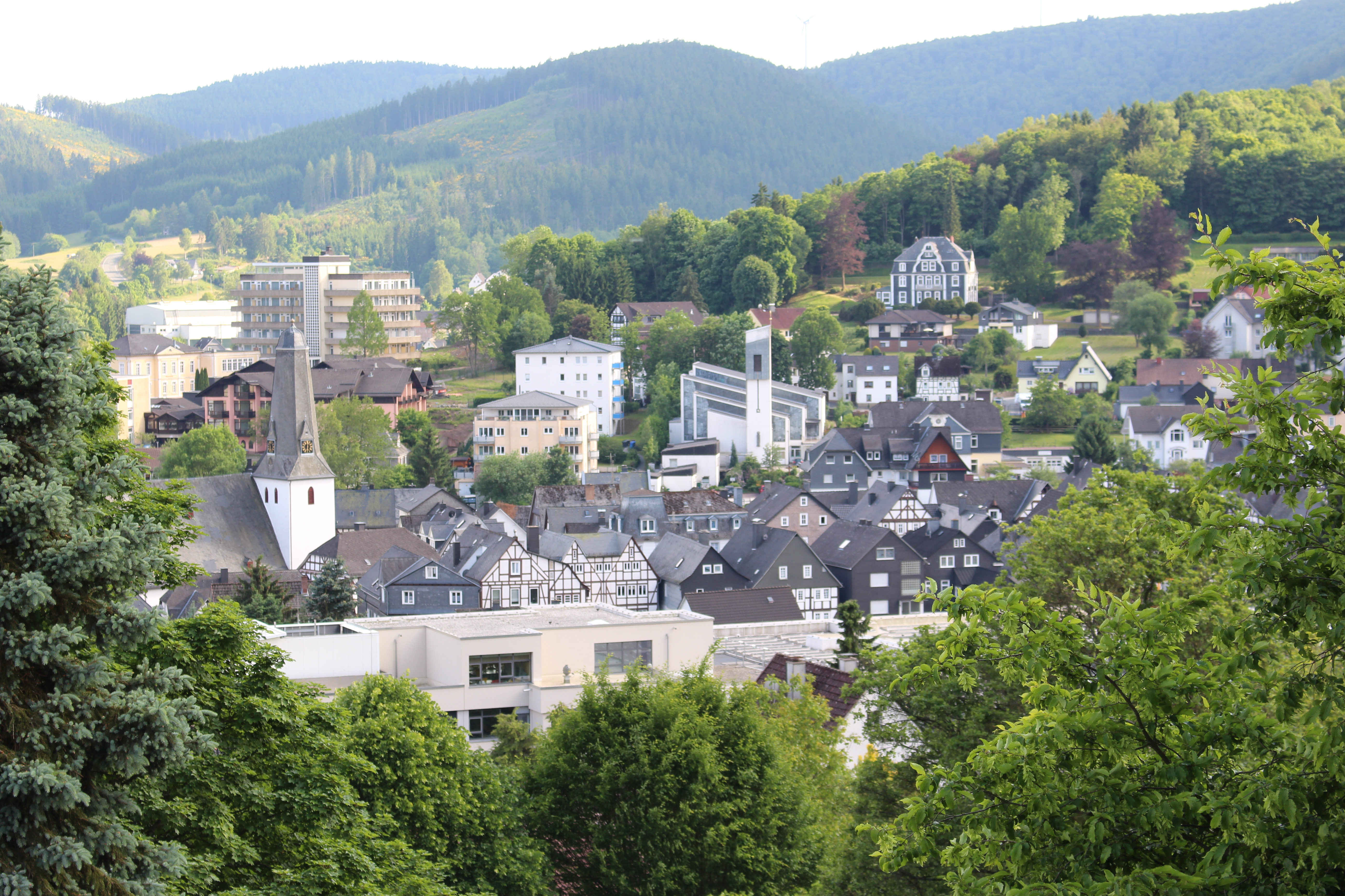 View on the city of Bad Laasphe, NRW, Germany.